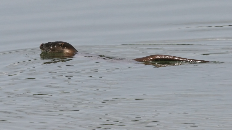 Eurasian Otter Lutra lutra, Gubbeen, Co. Cork, Ireland